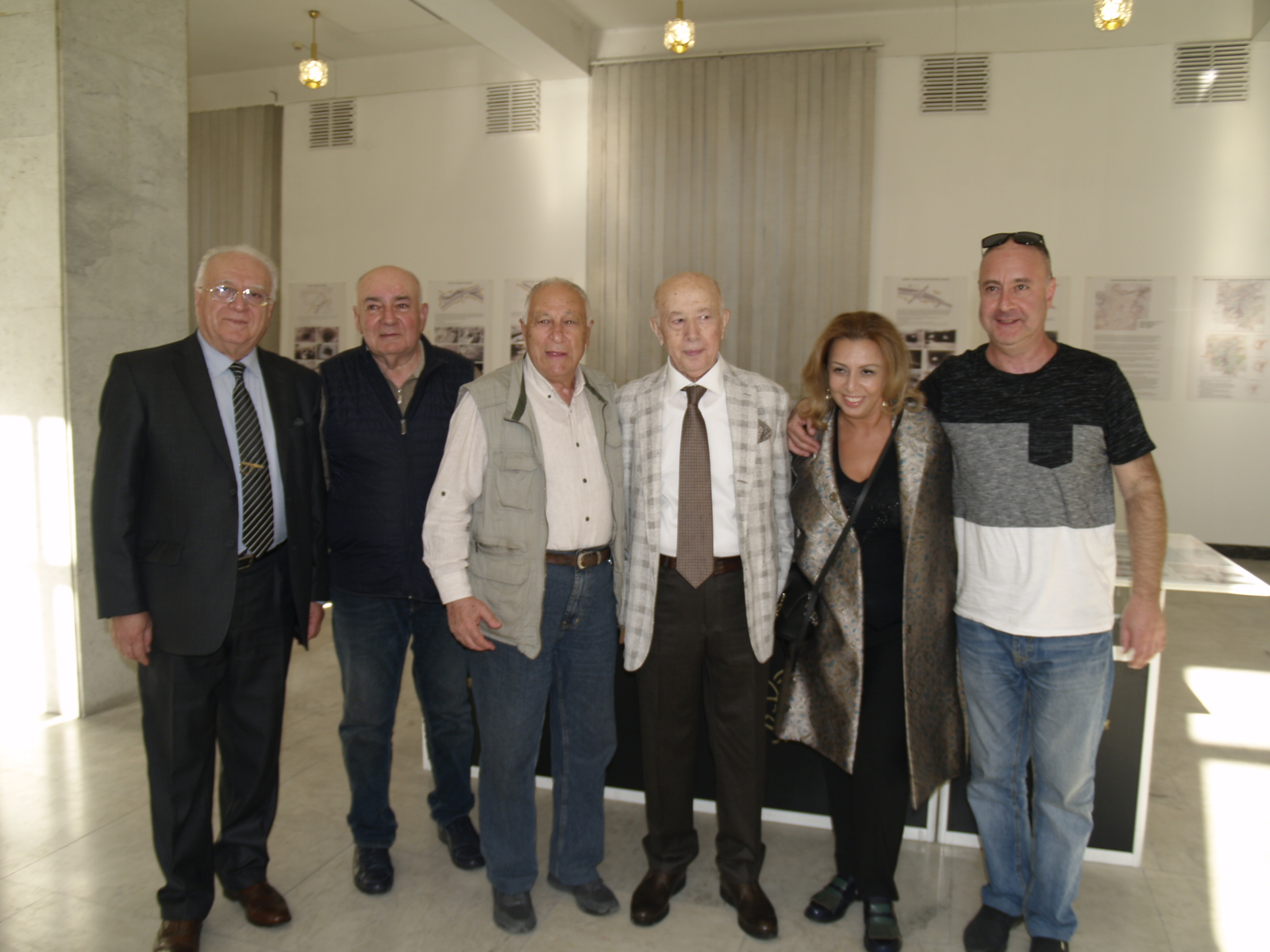 Exhibition on Gurgen Musheghyan's 85th Anniversary